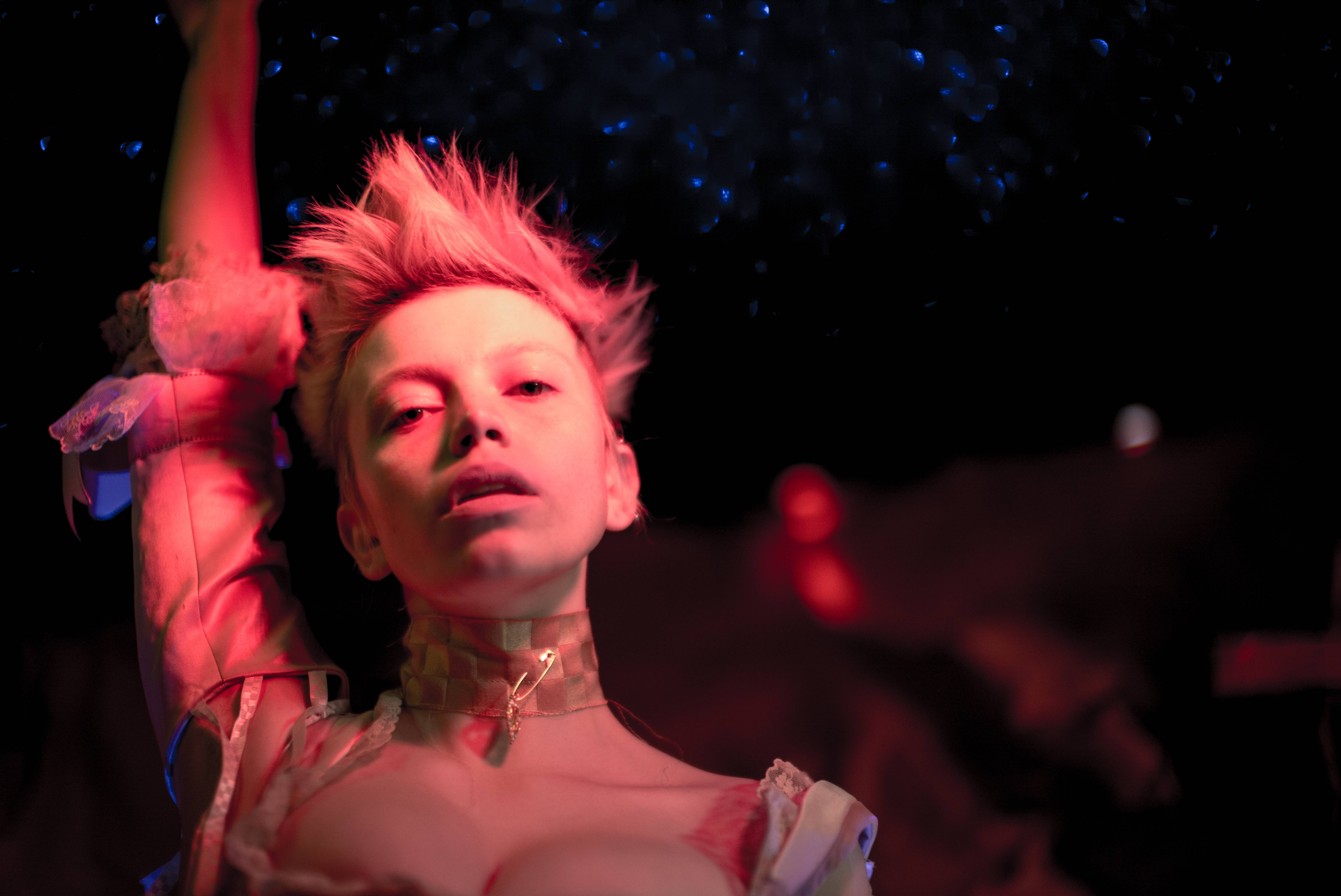 Portrait at Dilara Findikoglu LFW, SS17 Presentation